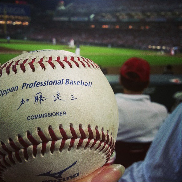 Nippon Professional Baseball's official ball for the 2013 season, made by Mizuno.